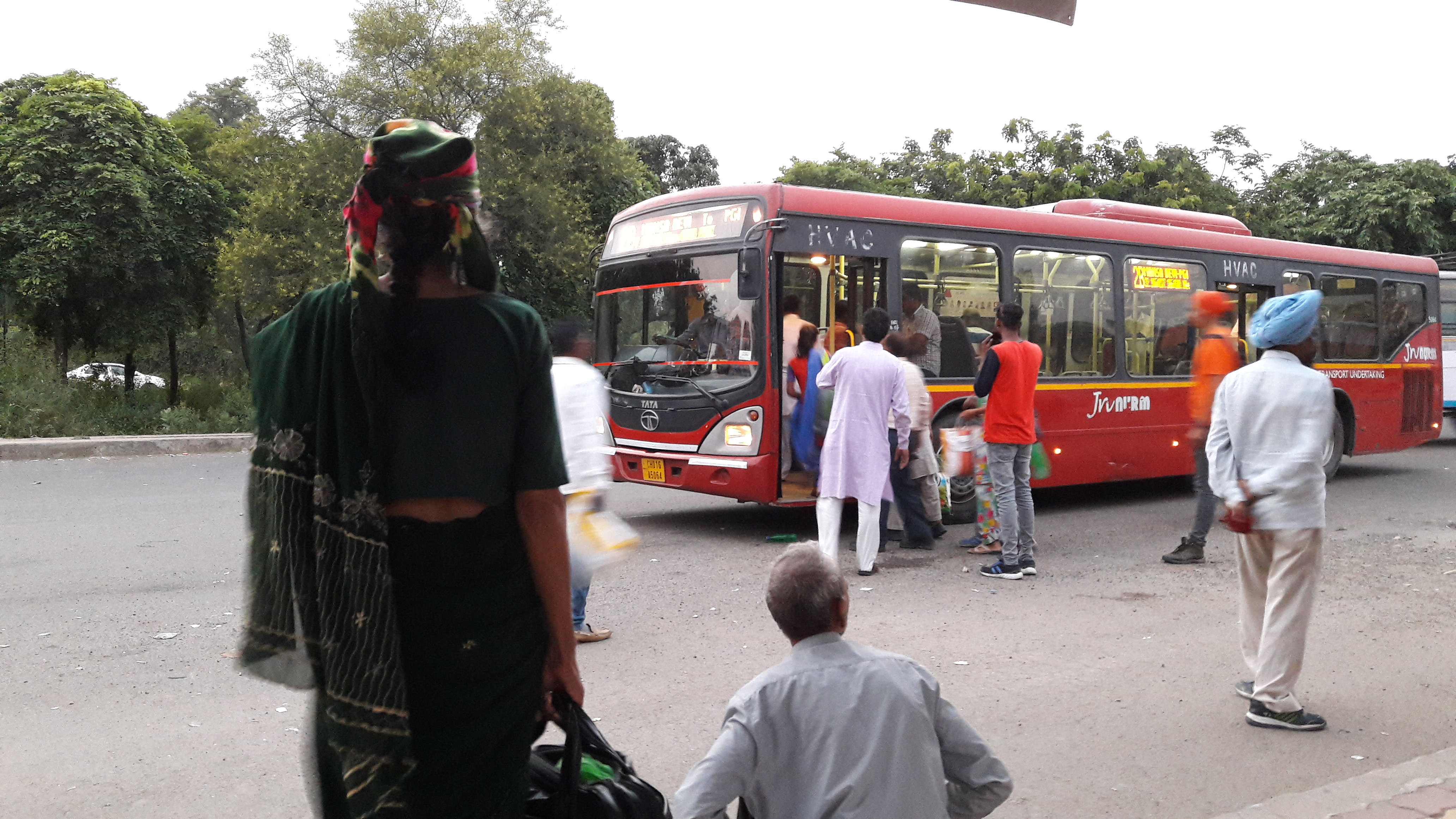 CTU AC Low floor bus outside railway station